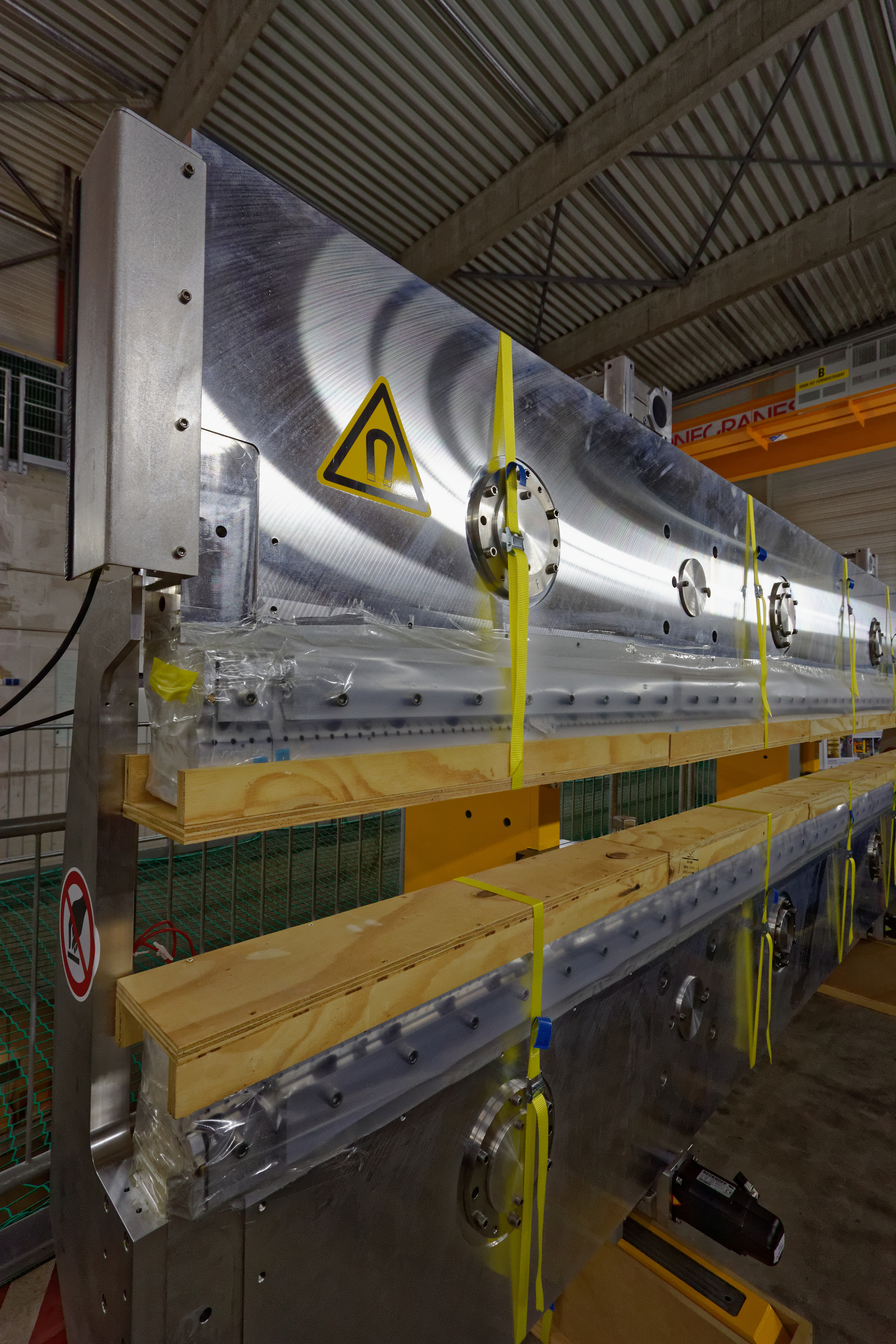 European XFEL at DESY undulator